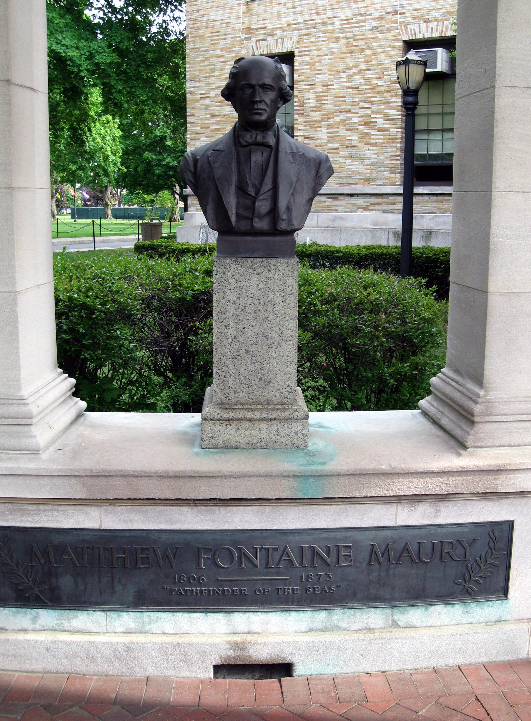 Hall of Fame for Great Americans statue of Matthew Fontaine Maury on a cloudy May 14 afternoon.